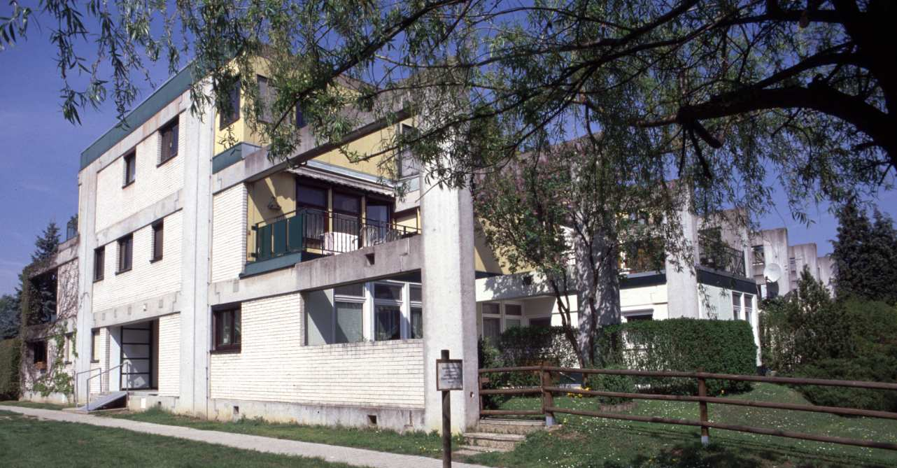 Residences at Hollabrunn, Austria, planned by architect Ottokar Uhl with participation of the inhabitants.